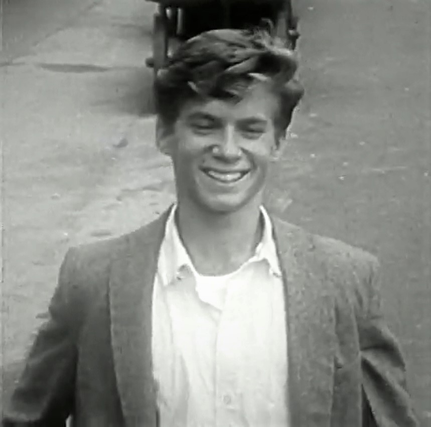 American actor Bobby Diamond in "Airborne", 1962 film